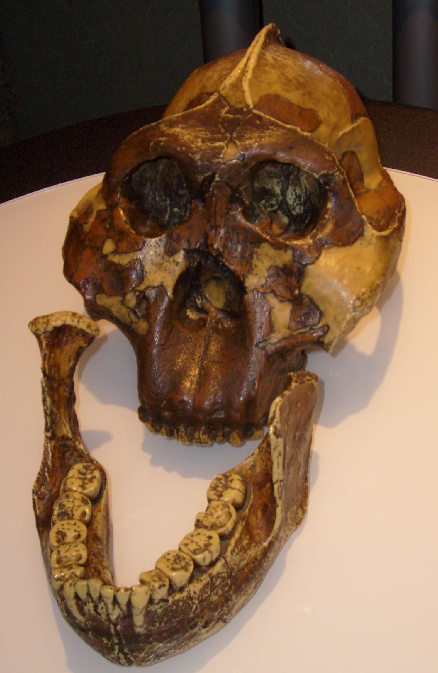 Replica Paranthropus boisei (jr synonym Paranthropus boisei) skull. Cast from originals. Skull discovered by Mary Leakey, Olduvai Gorge, Tanzania 1959 - 1.75 million years old. Jaw discovered by Kamoya Kimeu 1964 - 1.5 million years old. Displayed at Museum of Man, San Diego, California.